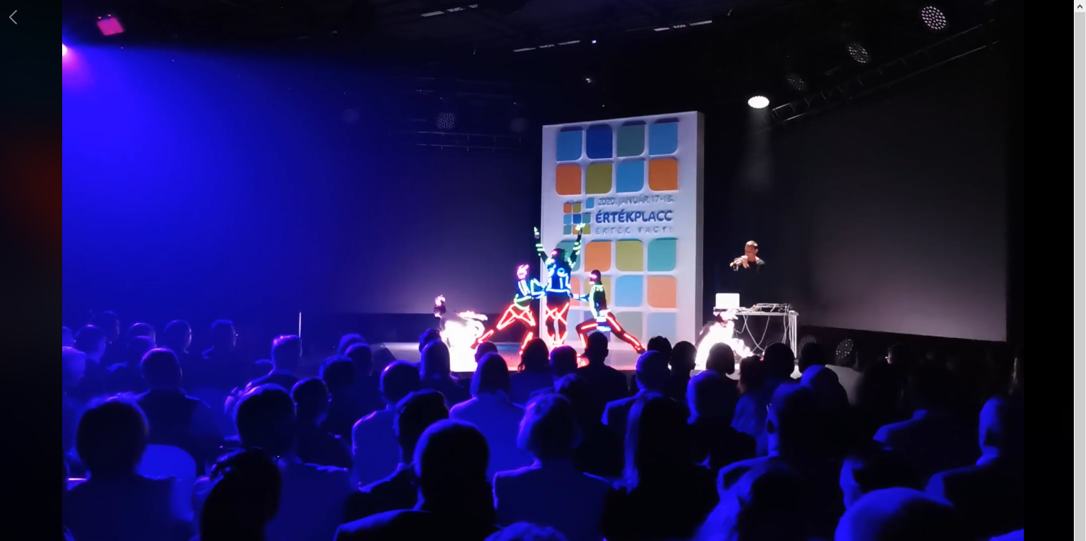 Barabás Lőrinc trumpeterː Illuminating power and volume. 17th of January, 2020. Értékplacc, Várkert Bazár.